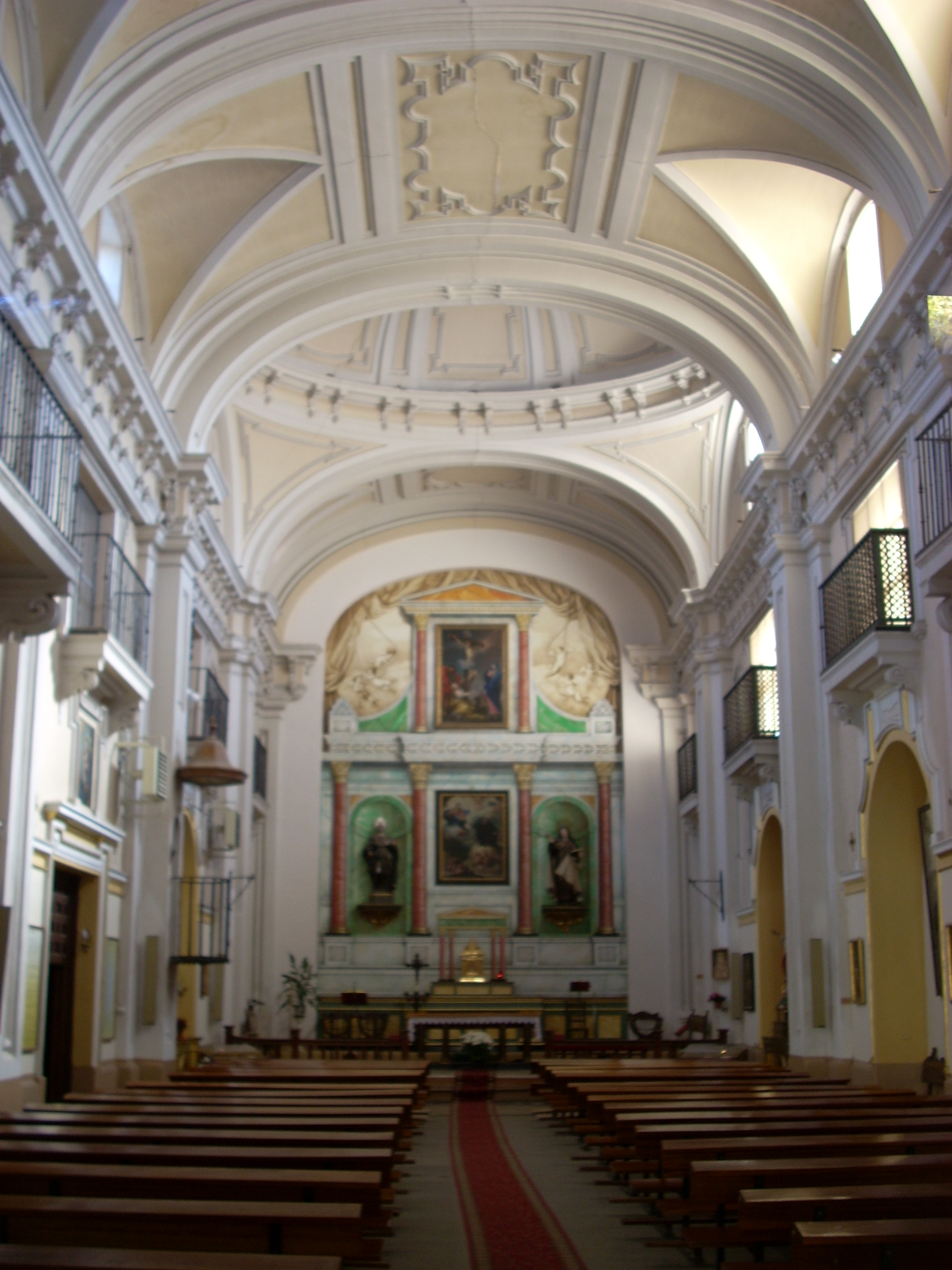 Oratory of Saint Philip Neri, Alcalá de Henares, Madrid, Spain